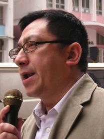 Ip Wai Ming